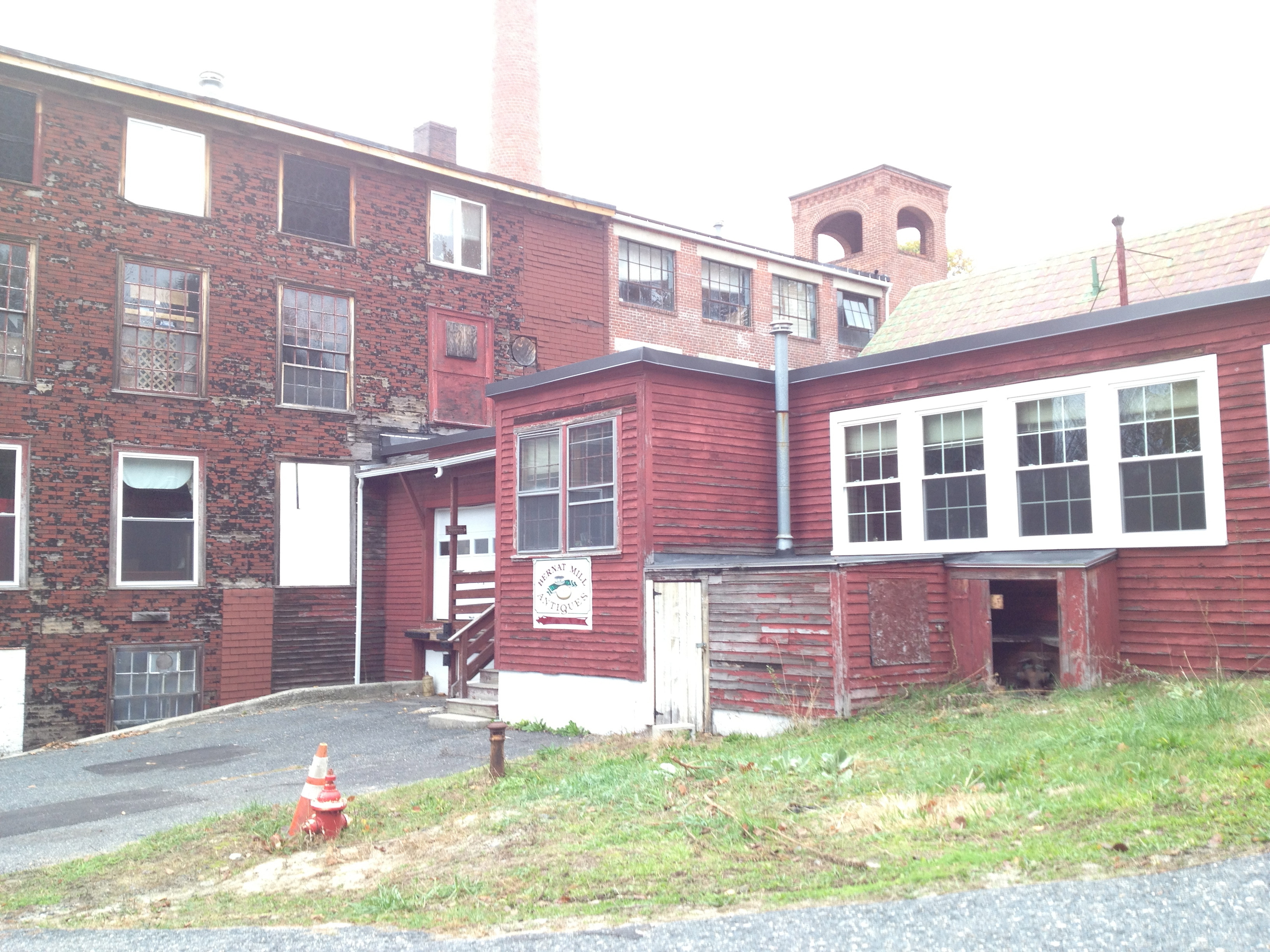 Daniel Day built the first woolen mill in the Blackstone Valley at this site on the West River(Massachusetts), in 1809. This began the next 200 years of the Wheelock families pressence in the woolen industry of the Blackstone Valley